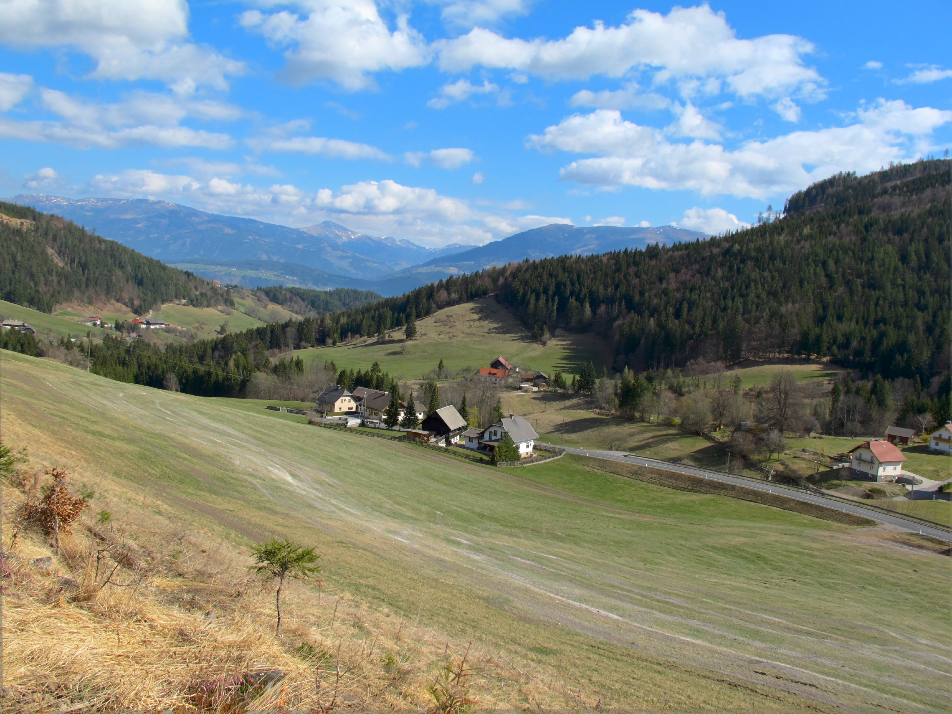 View from Kreuzen a village in the community of Paternion in Kärnten / Österreich / Europäische Union to North to the valley of the Drava. On the lawn in the foreground lime was scattered.